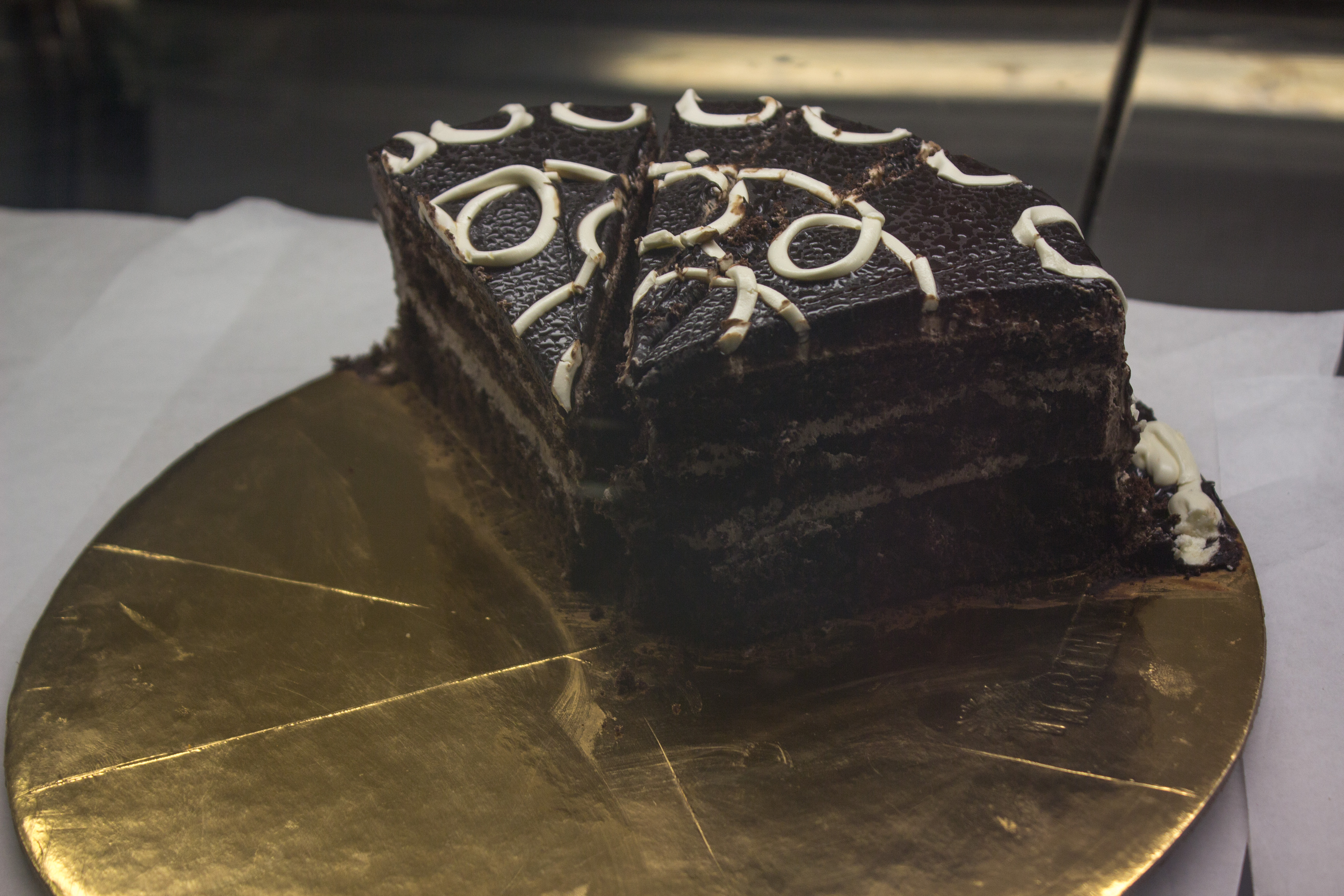 This is an image of food from Ghana